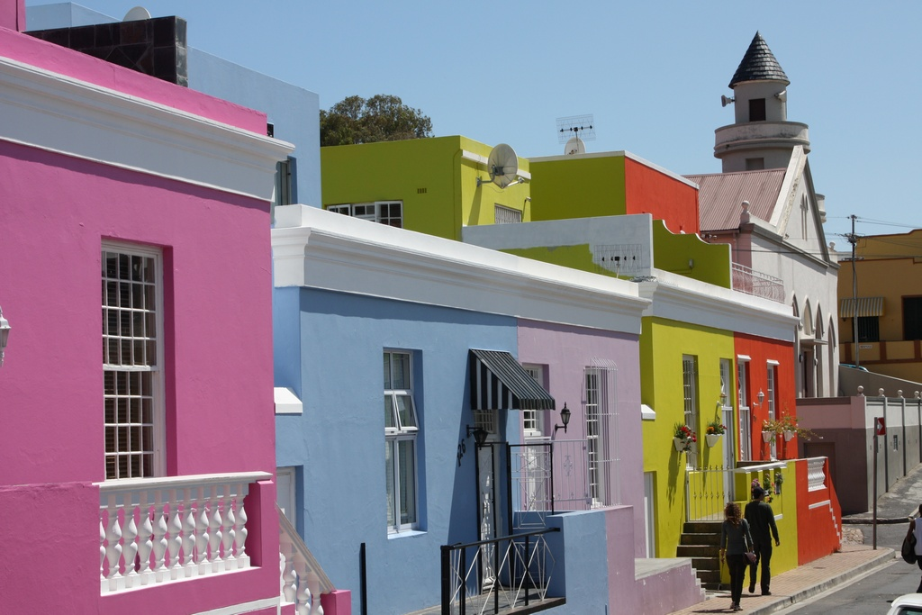 This media shows a South African Protected Site with SAHRA file reference 9/2/018/0008.